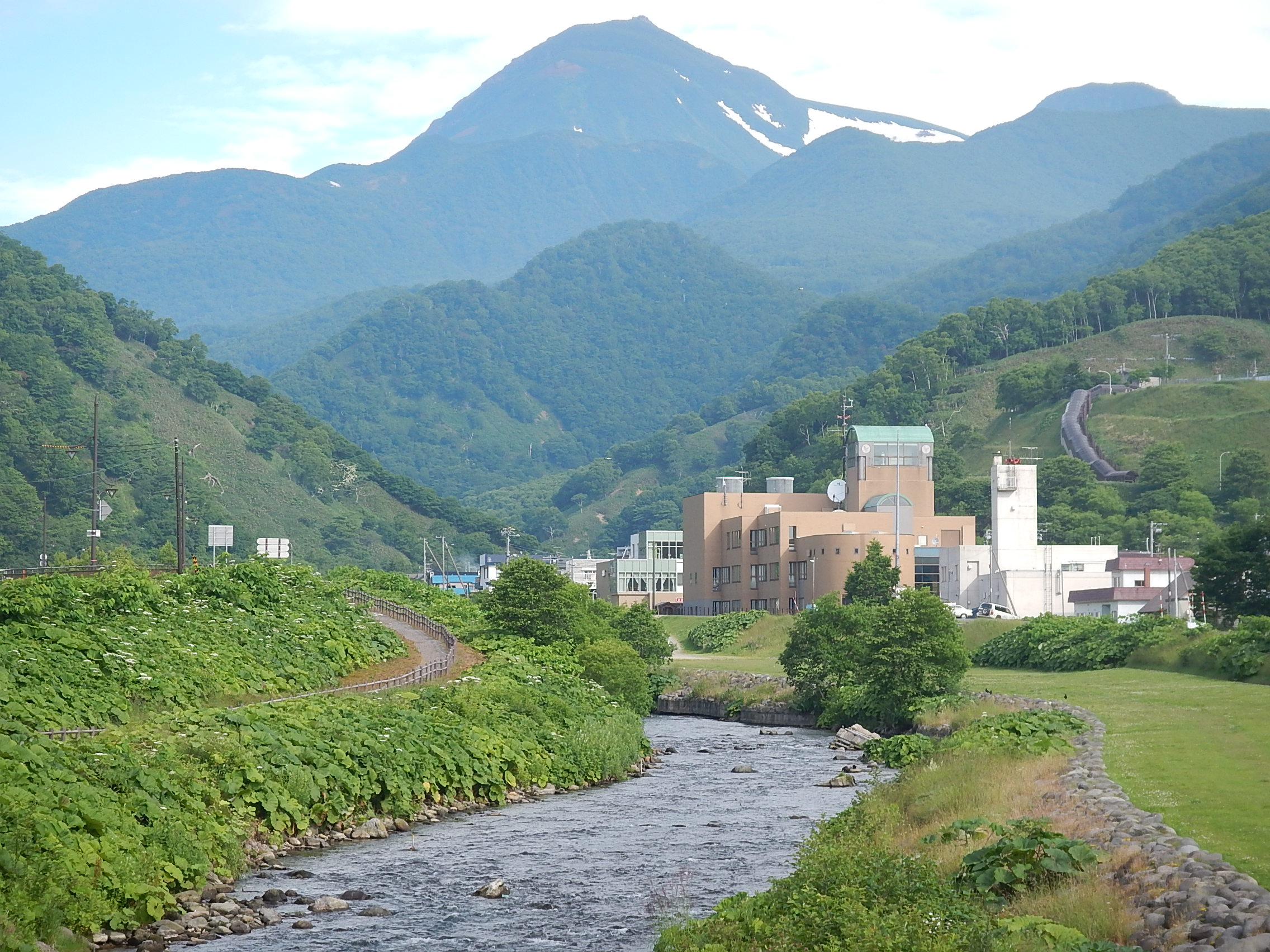 Rausu River and Mount Rausu as seen from Rausu Bridge.